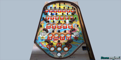 3D screenshoot of a ball game machine